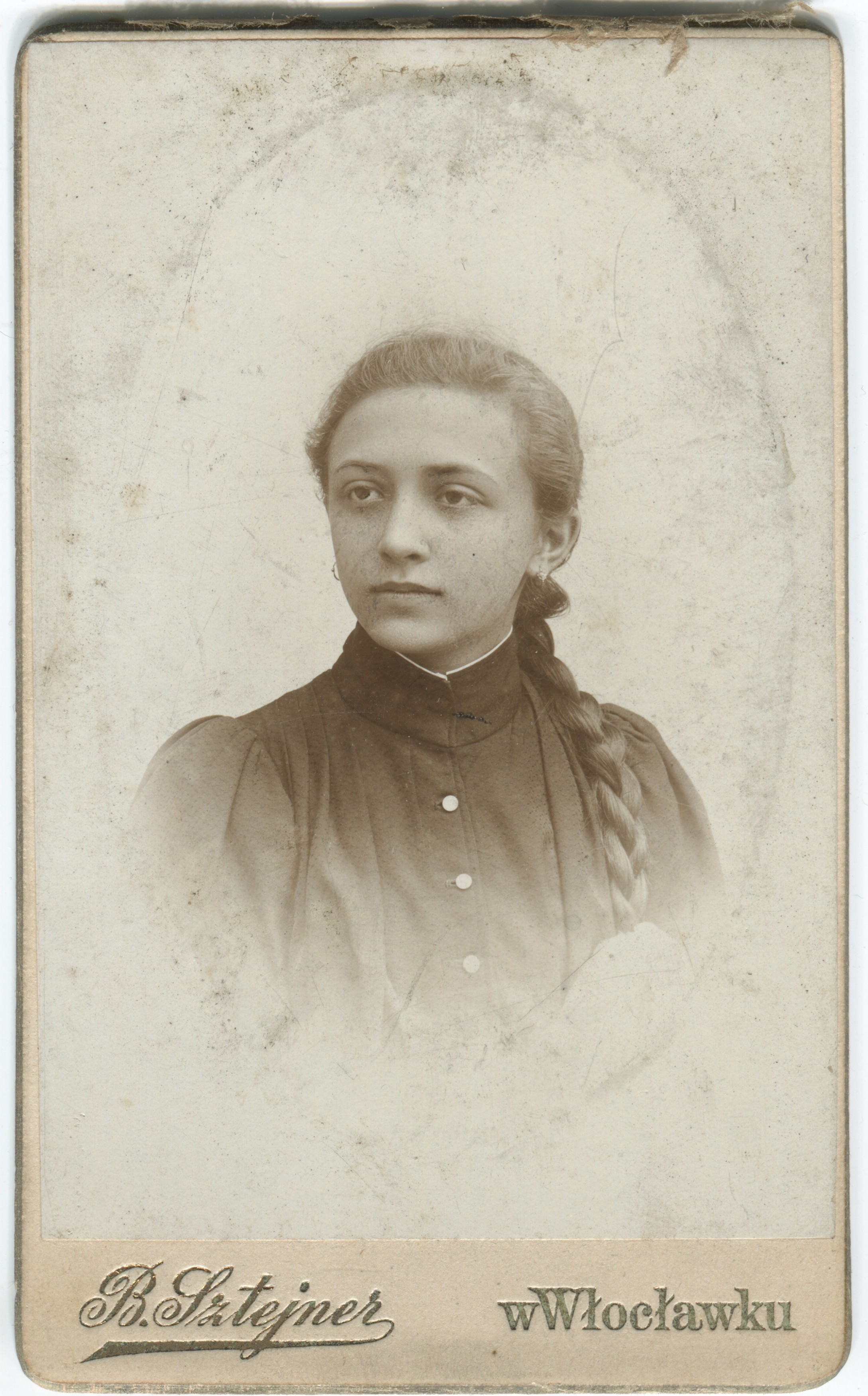 Later councilor of Włocławek and social activist Feliksa Dowmont (1884-1942) on photograph by Bolesław Sztejner (1861-1925), made c. 1900 year in Włocławek. Photograph from collection of Danuta Krełowska, published in Biblioteka Kolekcja Prywatnych (ang. Private Collections Library).